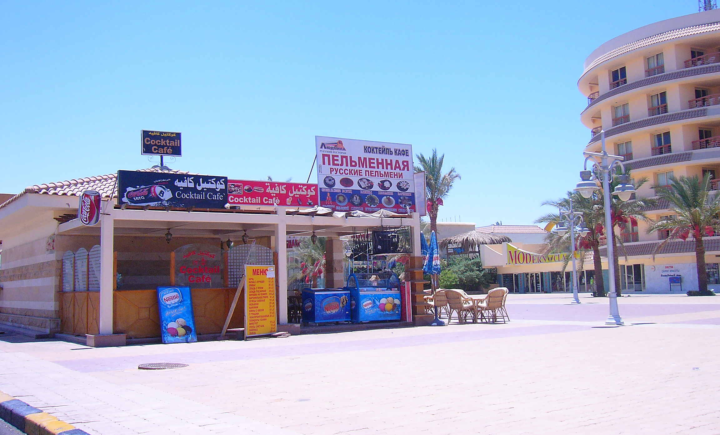 Amazing! Russian dumplings in central Hurghada. Egypt.